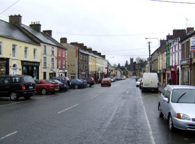 Main Street, Bailieborough, Co. Cavan